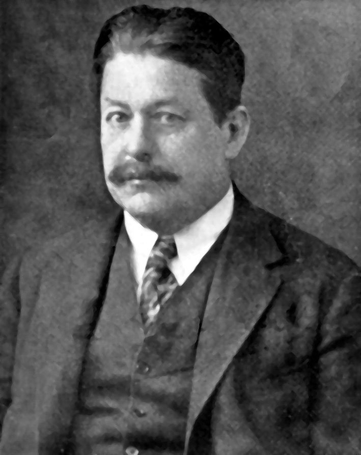 Farkas Antal poet, was born in Szentes